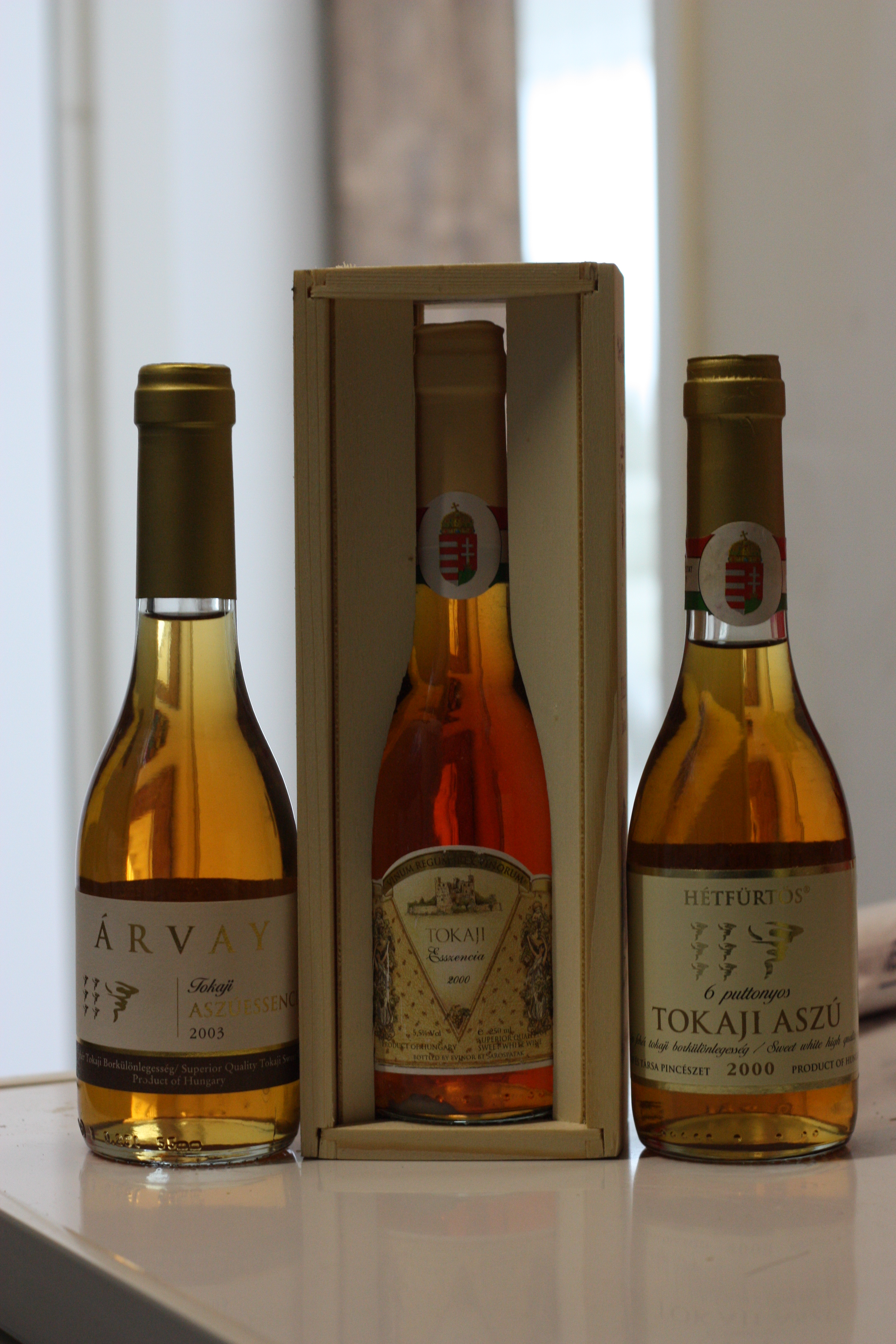 Three wines from Hungary, a 6 puttonys wine, an aszueszencia and an eszencia wine